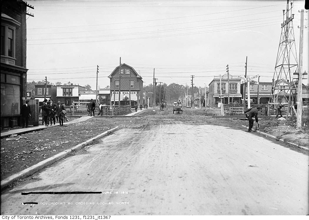 Dovercourt looking north to Geary, 1912